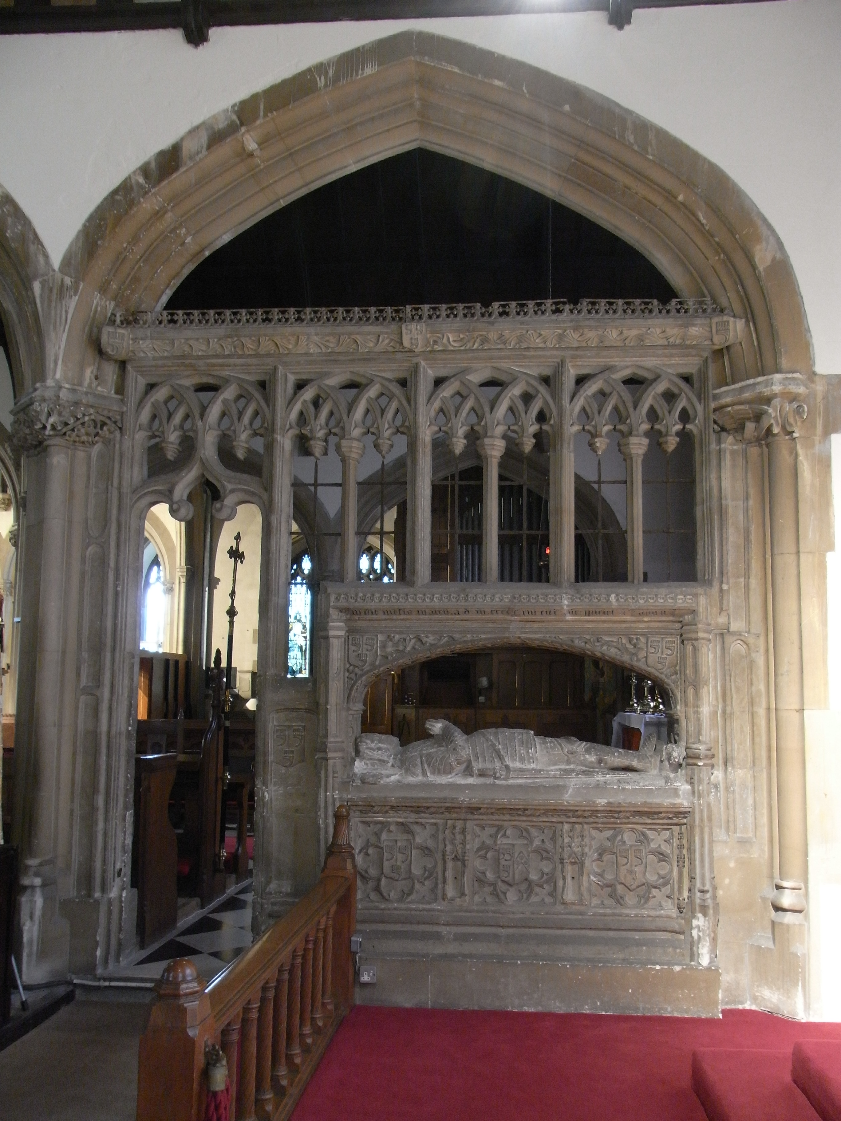 Monument of Sir Thomas Grenville (d.1513), St Mary's Church, Bideford, Devon; viewed from the Lady Chapel looking northwards